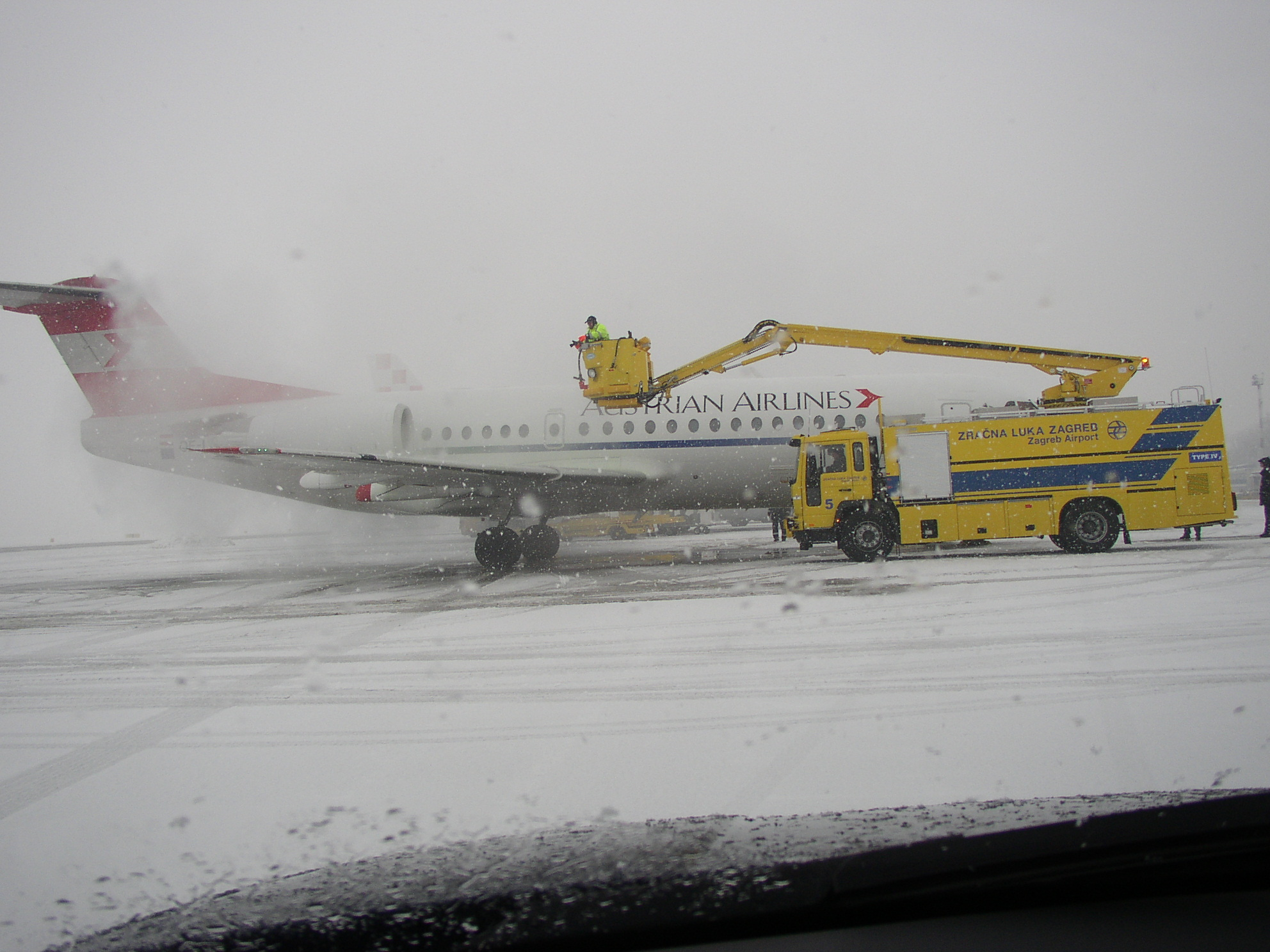 De-icing on Zagreb Airport (Austrian Airlines).